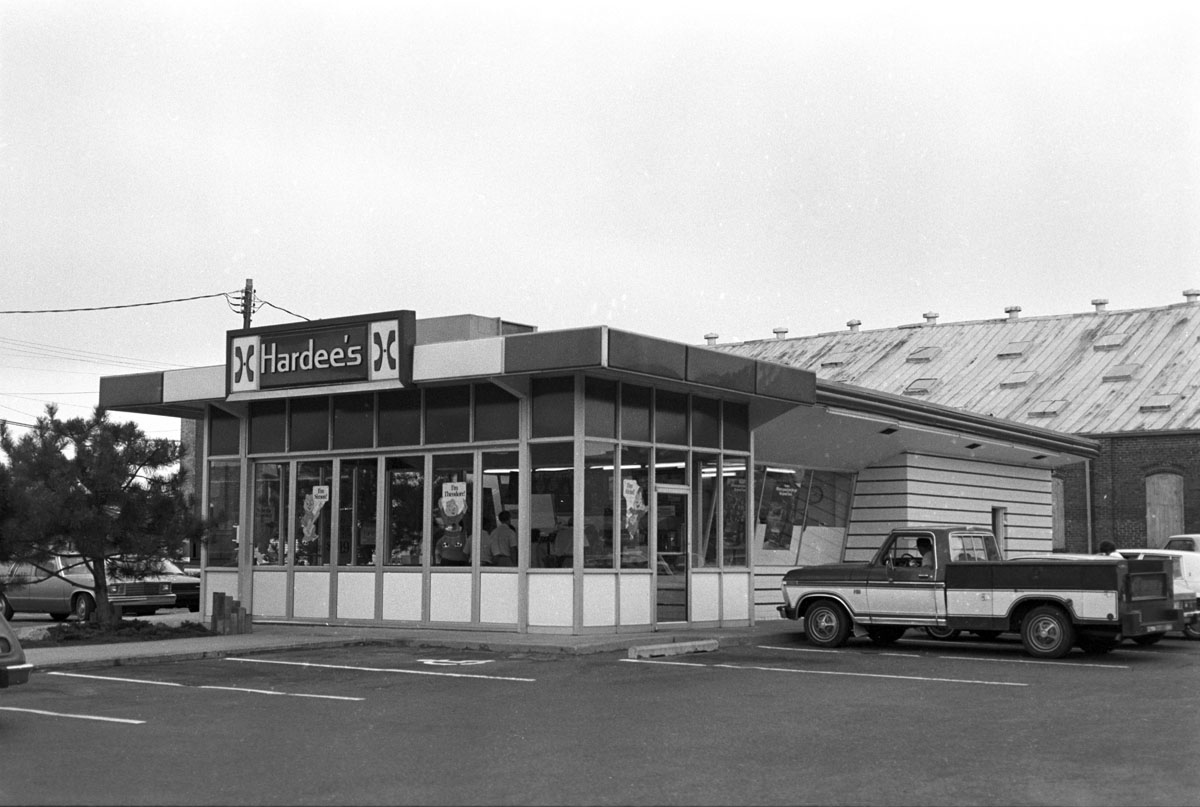 Hardees #1 - the original Hardees franchise restaurant, McDonald Street, Rocky Mount, NC, early 1980's. This location was razed shortly after these photos were taken. Hardees founder Wilbur Hardee opened his first restaurant in Greenville, NC, on September 9, 1960. The first franchise, Hardees #1, opened in Rocky Mount in May 1961, and was run by James Carson Gardner and Leonard Rawls. According to Wilbur Hardee, Gardner and Rawls won a controlling share of the company from him in a game of poker. After realizing that he lost control over his namesake company, Hardee sold his remaining shares to them as well. The chain grew and prospered and was headquartered in Rocky Mount until 2001 when Hardees was purchased by the parent company of Carl's, Jr., and moved its headquarters to St. Louis, MO. From the General Negative Collection, State Archives of North Carolina, Raleigh, NC.